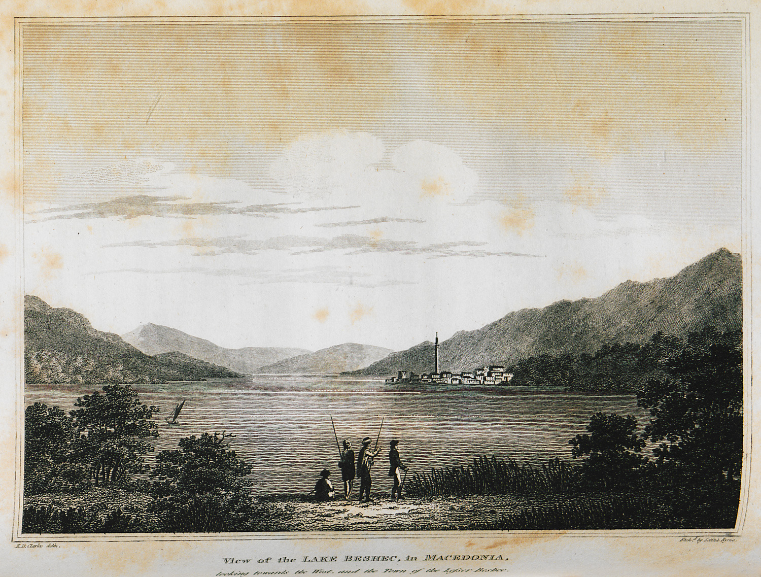 Edward Daniel Clarke. Travels in various countries of Europe Asia and Africa. Part the First Russia Tartary and Turkey (1810). Part the Second Greece Egypt and the Holy Land (1813). 2nd edition (1824). London, R. Watts for Cadell and Davies